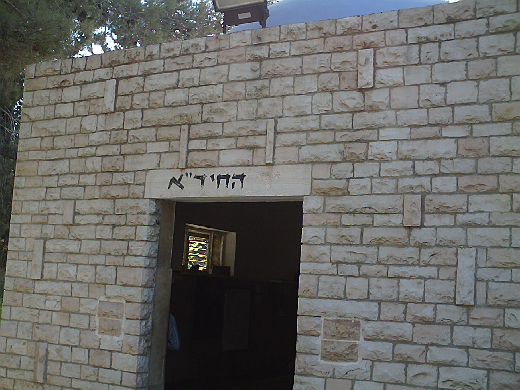 Kever of the Chida (Chaim Joseph David Azulai)